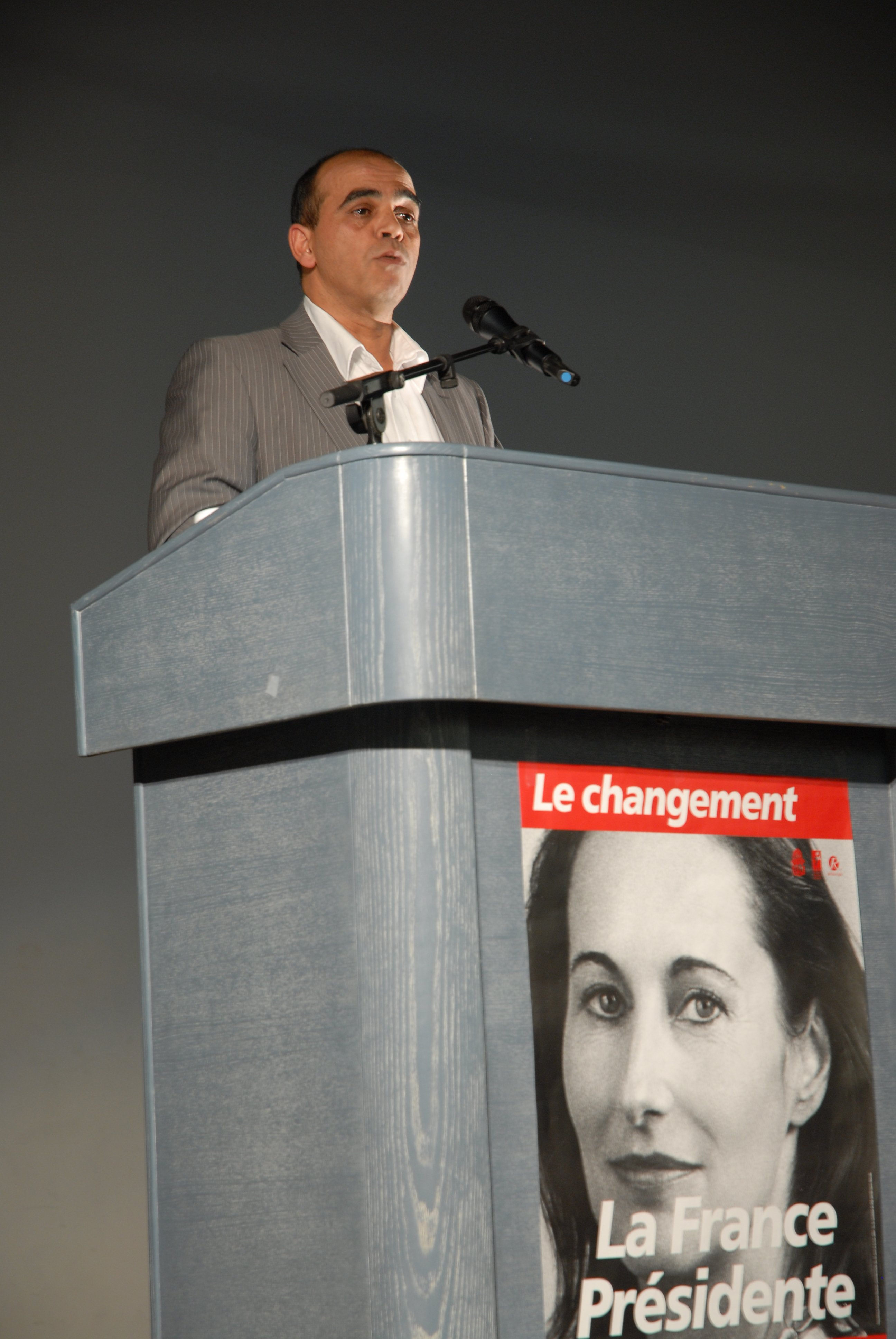 Kader Arif (French politician) during Dominique Strauss-Kahn's meeting in Toulouse on April, 13th 2007 where he was promoting Ségolène Royal's candidacy for the 2007 presidential election.